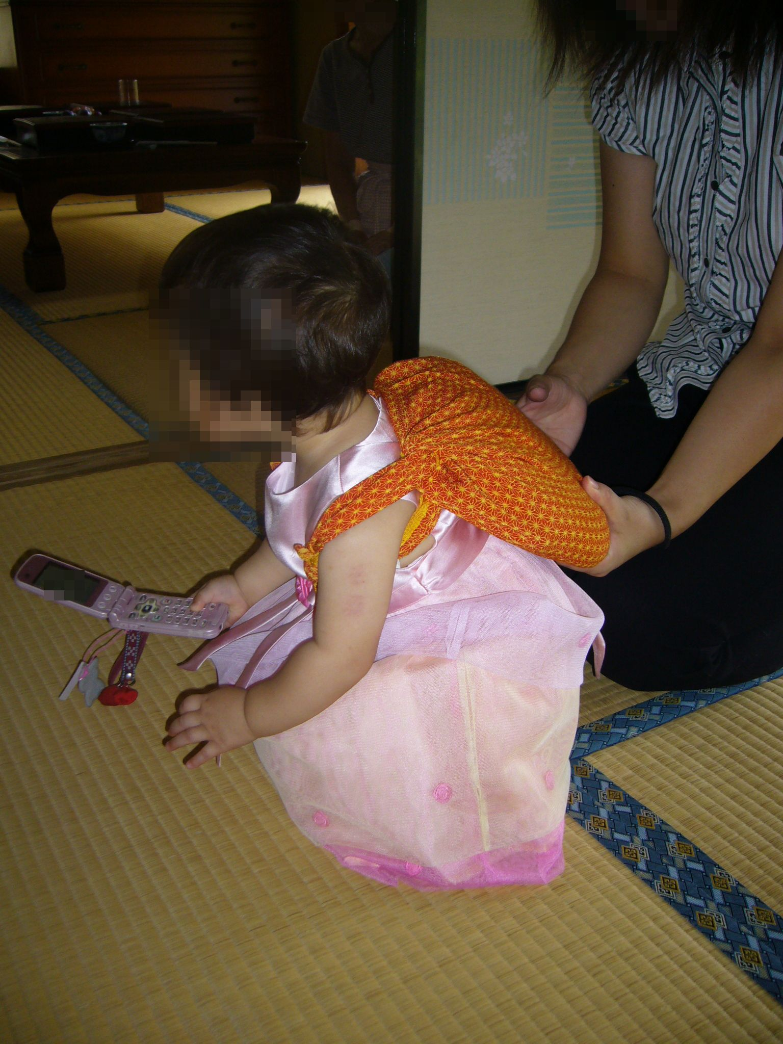 1sho rice cake,issyo-mochi,katori-city,japan. I carry a rice cake of 1sho on my back and do celebration of a birthday of 1 year old.